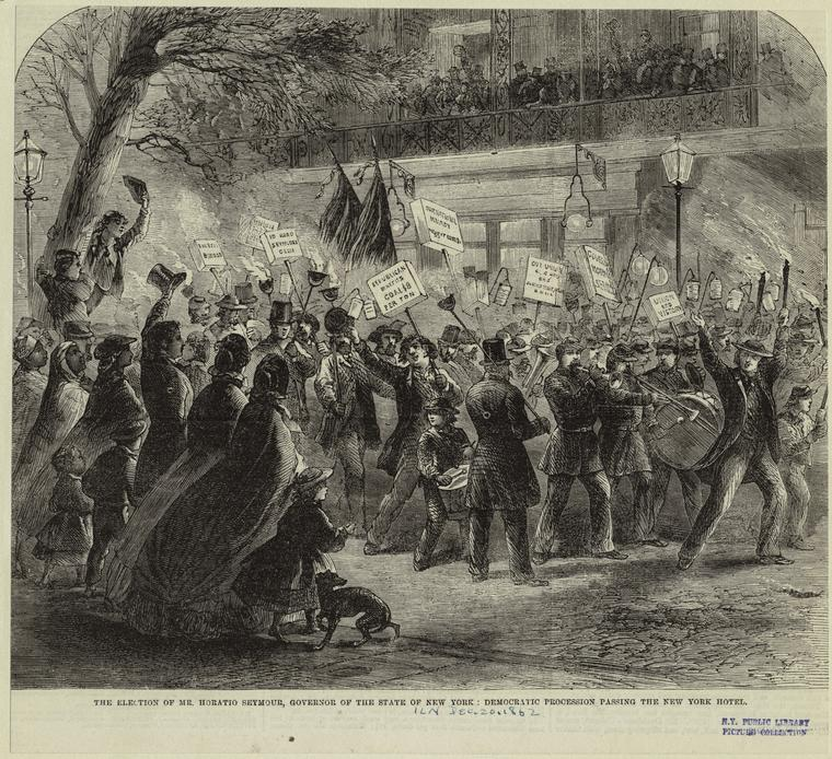 The election of Mr. Horatio Seymour, governor of the State of New York : Democratic pecession passing the New York hotel.